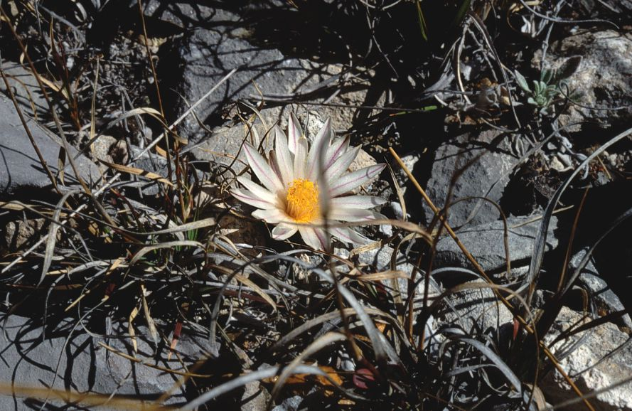 This is the white flowering form of Turbinicarpus valdezianus